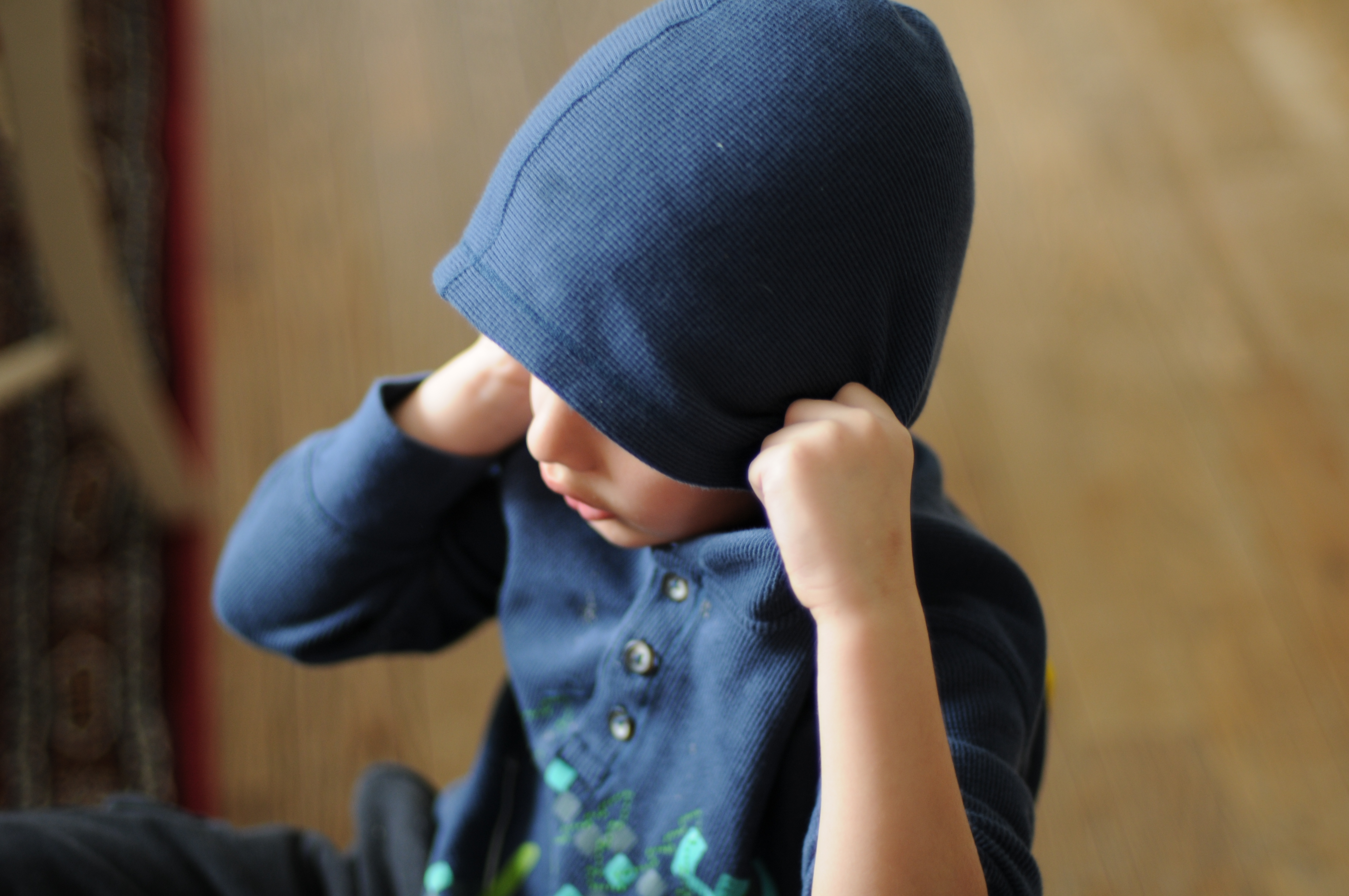 A child wearing a blue hoodie. Ottawa, Canada, 2010.